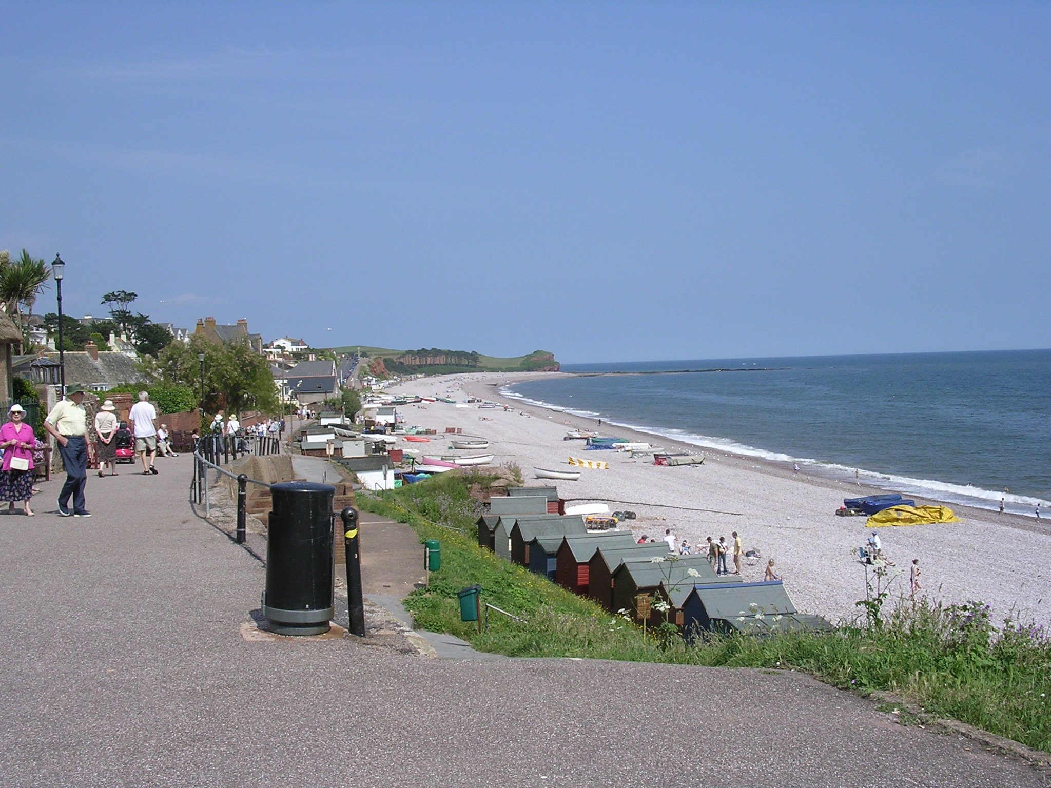 The beach at Budleigh Salterton Photo by me